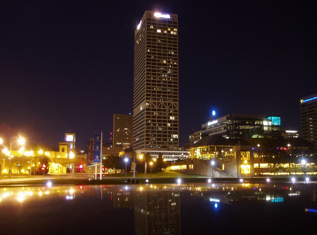 US Bank Building - The view of downtown Milwaukee from the construction site near Pieces of Eight